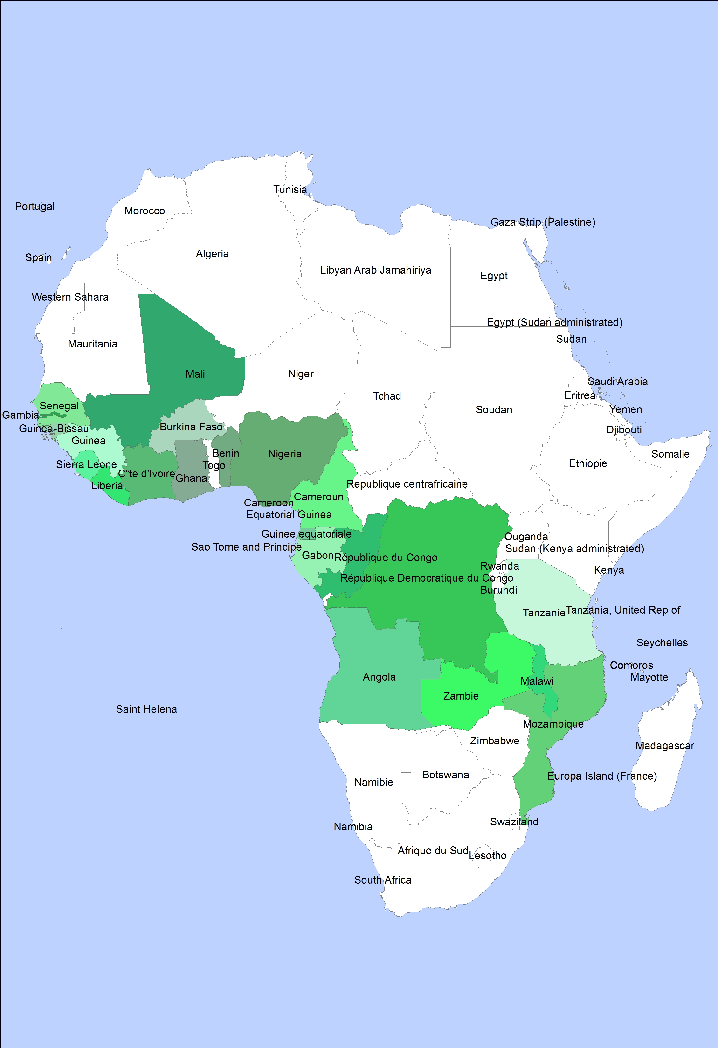 African countries where masks are used, based on a list in the book African Masks, The Barbier-Mueller Collection